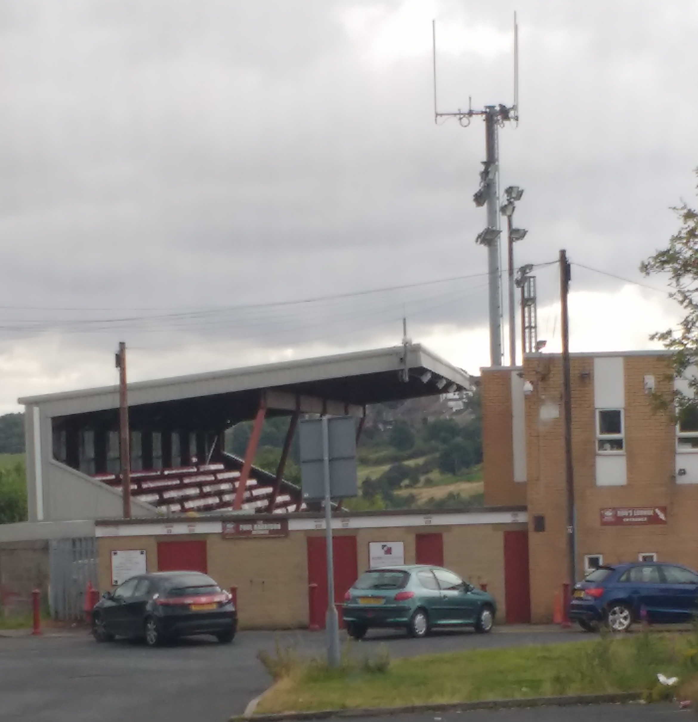 view from outside the ground